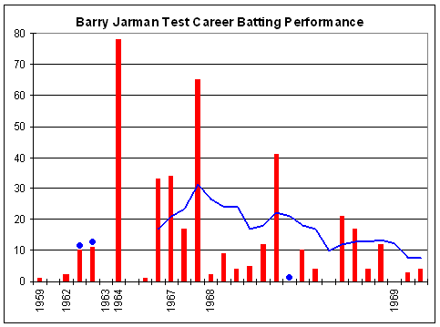 Test batting chart of Barry Jarman. Red columns are the runs in the innings. Blue dots indicate not outs. Blue line is average in the last ten innings. Thanks to Raven4x4x for providing the template.